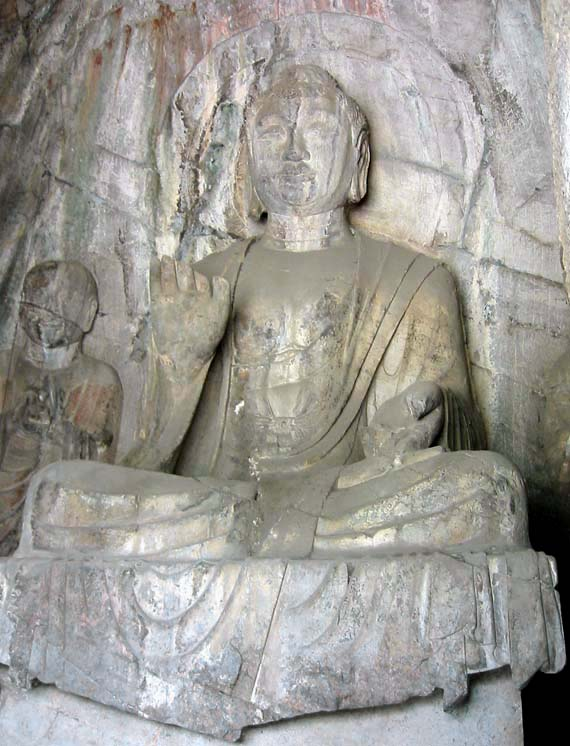 Hidden Stream Temple Cave, Buddha Amitabha; Longmen grottoes (Mt. Longmen), Luoyang, Henan, China